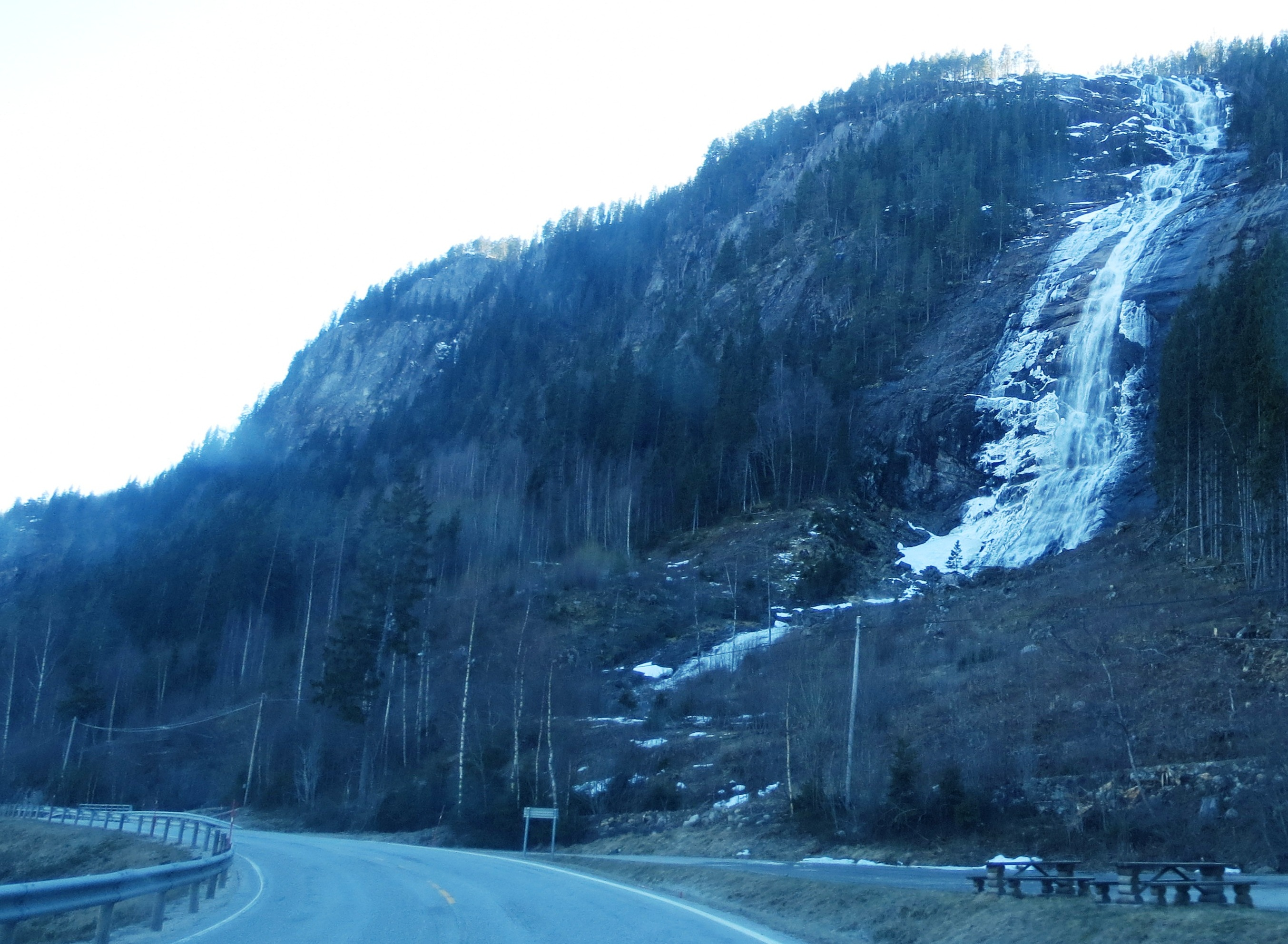 Image from the Ose township surroundings of Bygland municipality. In the Setesdalen valley, Aust-Agder county, Norway.